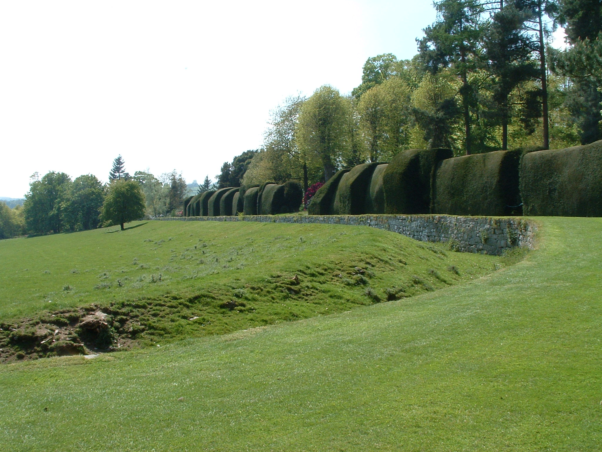 View of the Chirk Castle ha-ha found in Denbighshire, North Wales